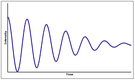 Model of the fluctuation of the intensity of a single Reflection high-energy electron diffraction (RHEED) point during MBE deposition